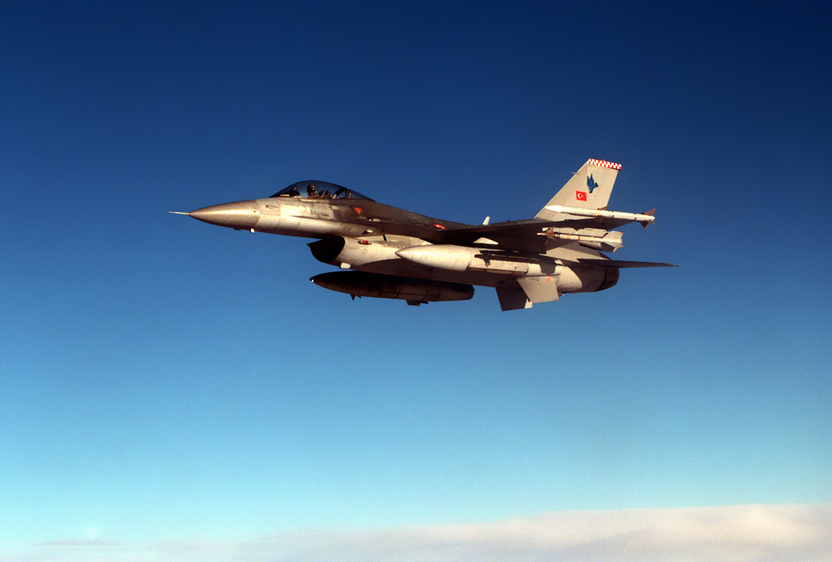 An F-16C Falcon from the Turkish Air Force waits to take on fuel from a 100th Air Expeditionary Wing KC-135R Stratotanker (not shown) from RAF Mildenhall United Kingdom on Mar. 31, 1999. The Falcon is armed with AIM-120C Advanced Medium Range Air to Air Missiles on the wingtips and AIM-9 Sidewinders on the inboard wing stations while on patrol in support of Operation Allied Force.